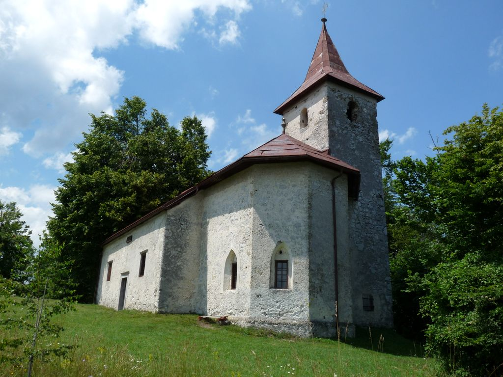 Sv. Duh na Polževem